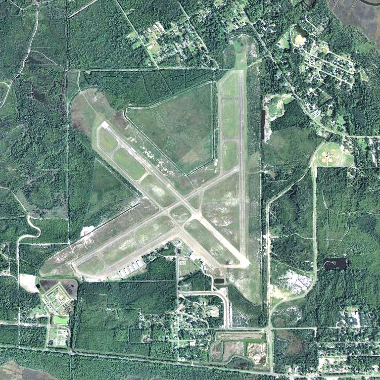 USGS digital orthophoto of Apalachicola Regional Airport in Apalachicola, Florida, United States. Formerly known as Apalachicola Municipal Airport and Apalachicola Army Airfield.